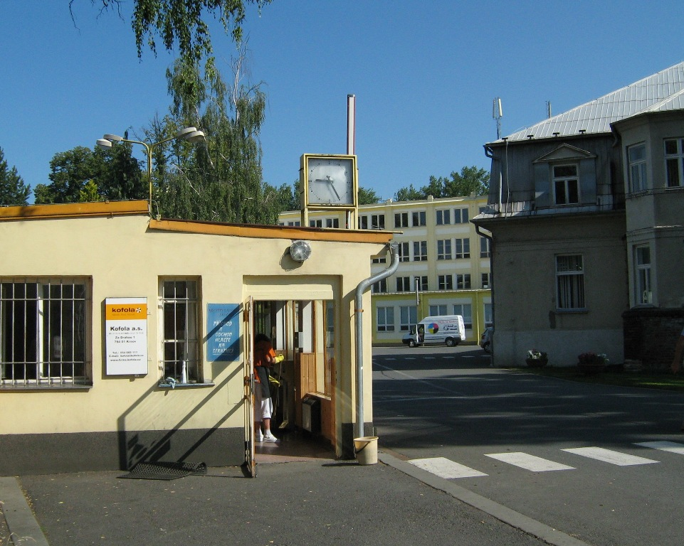 Gatehouse of Kofola company in Krnov, CZ. Za Drahou 165/1.